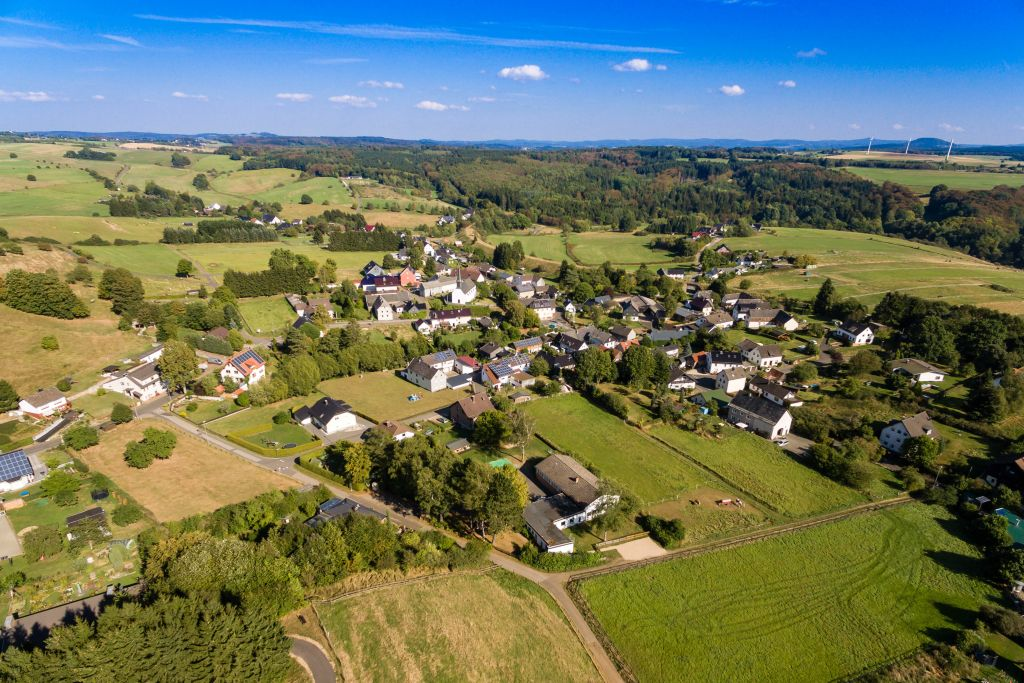 Aerial Picture of Blankenheim-Mülheim